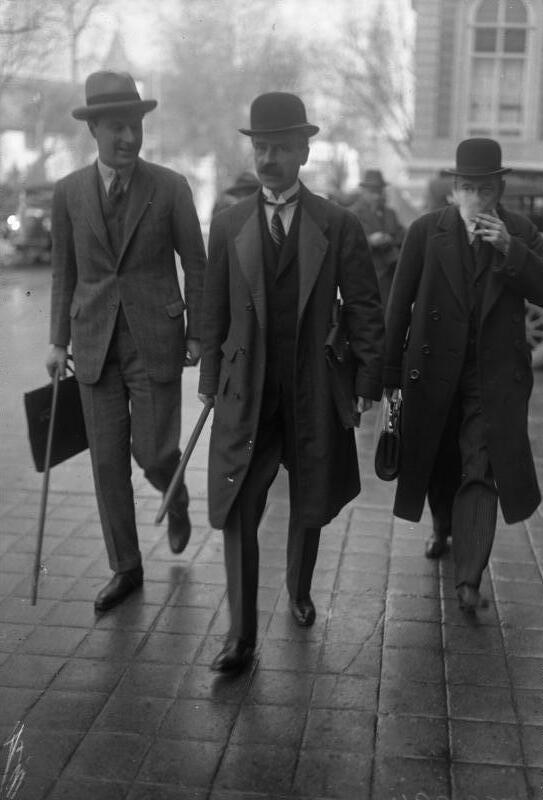 Der Eintritt Deutschlands in den Völkerbund. Aufnahmen vom Tage der ersten Völkerbundsitzung. Graf Bethlen, der Führer der ungarischen Delegation, Mitte, auf der Seepromenade in Genf. ("The entry of Germany into the League of Nations. Photos from the day of the first League meeting. Count Bethlen, the leader of the Hungarian delegation, center, on the lake promenade in Geneva.")